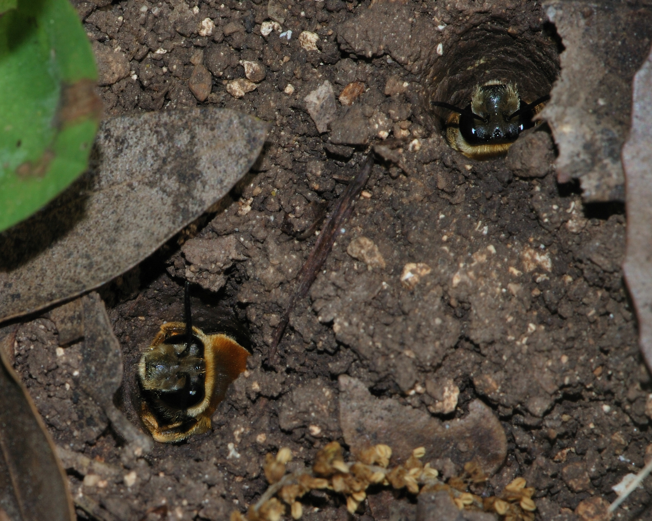 Eucera (Synhalonia) plumigera Kohl, two female bees guarding at their nest entrances, Mount Carmel, Israel, April 15, 2011. Det. Stephan Risch 2011.